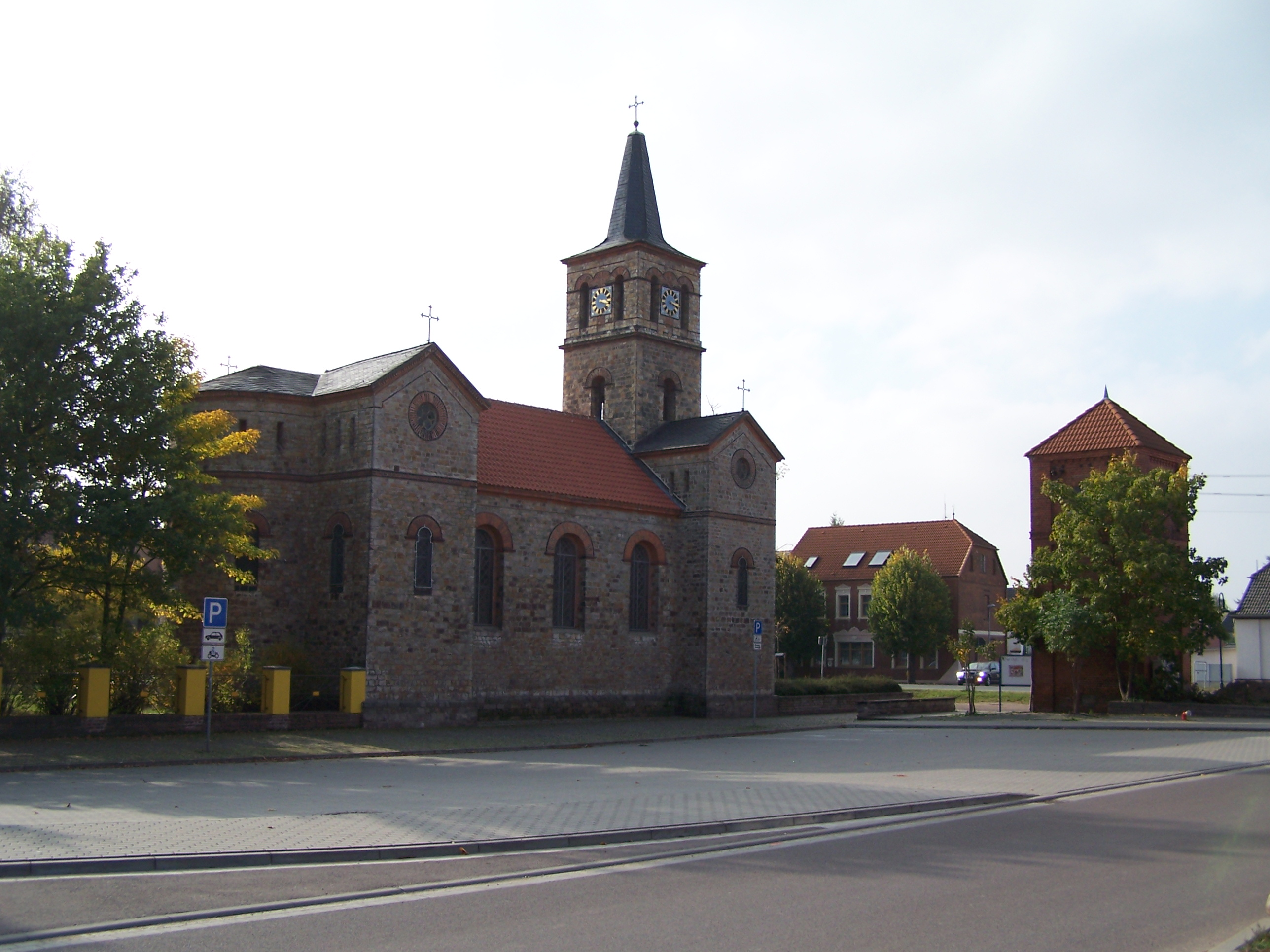 Church in the municipality of Gerwisch, Saxony-Anhalt, Germany.